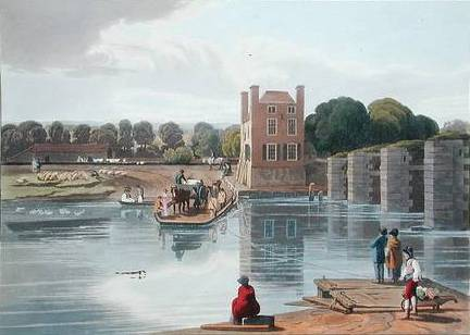 The ferry across the Thames at Datchet Berkshire showing the remains of the old bridge just prior to its rebuilding in 1812.